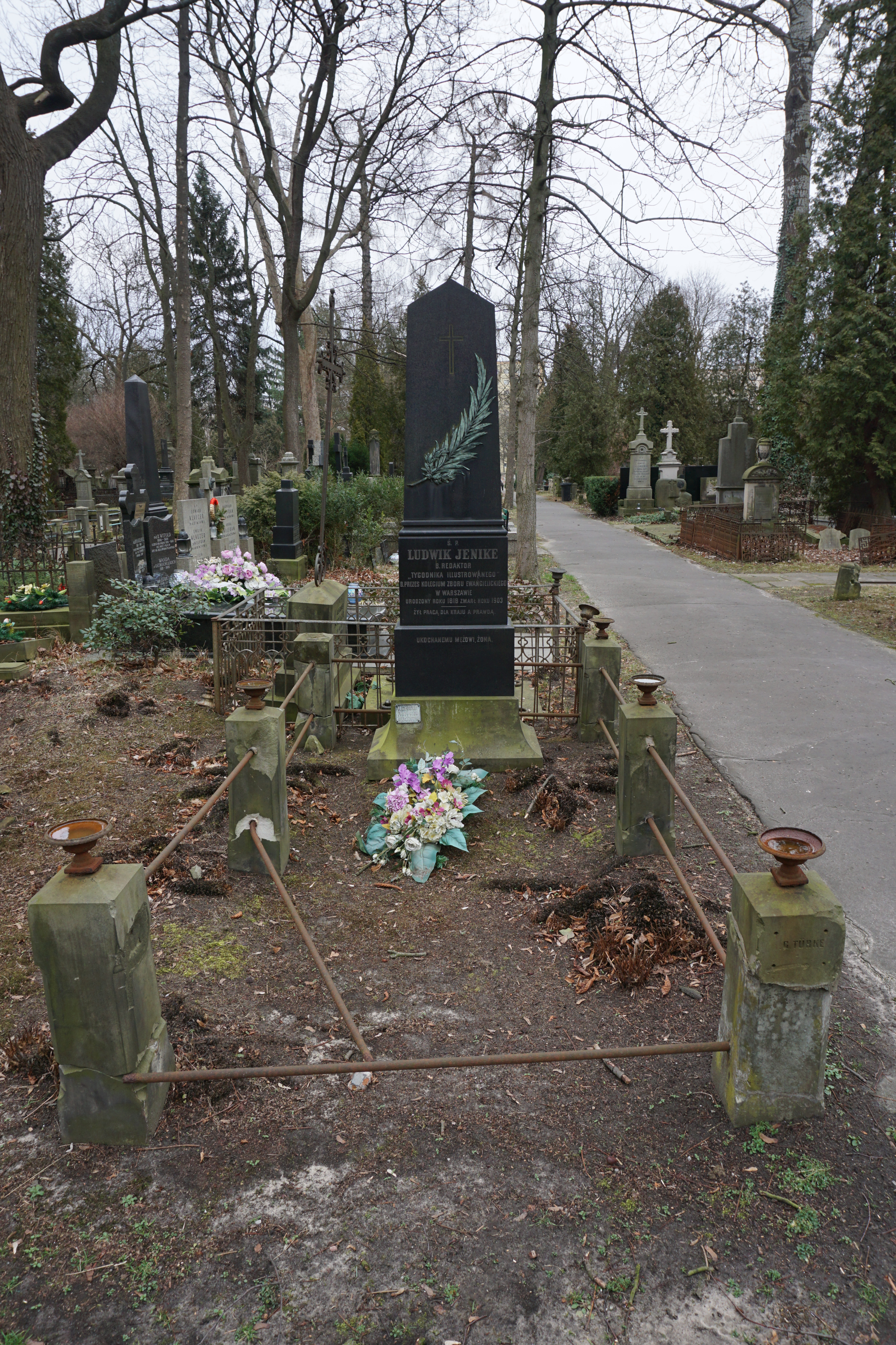 The grave of Ludwik Jenike at the Evangelical-Augsburg Cemetery in Warsaw (avenue 9, grave 36)